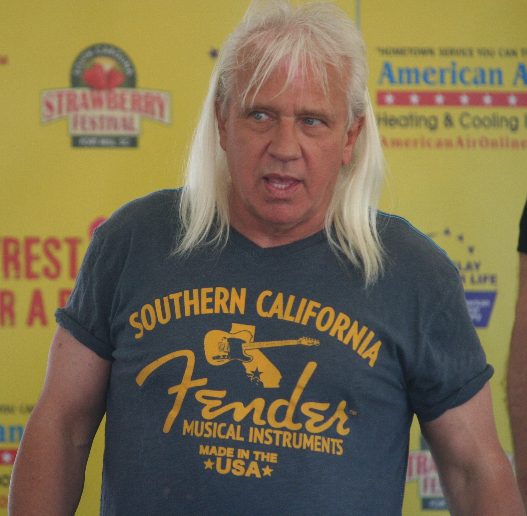 Ricky Morton at the Fort Mill Strawberry Festival in May 2014.